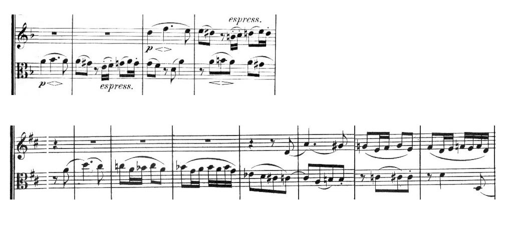 The fugal motif from the Adagio of string quartet opus 13 by Felix Mendelssohn, compared with the fugal motif from Opus 95 by Ludwig van Beethoven.